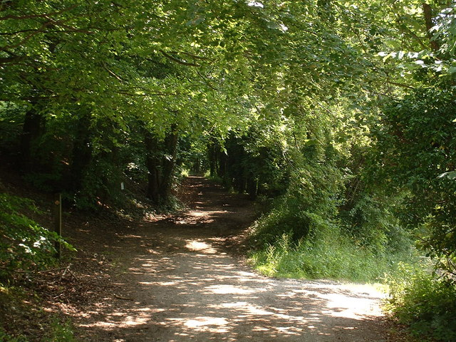 The Pilgrim's Way at Westwell Downs, Kent